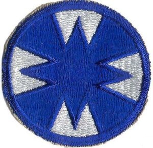 This is the 48th Division "Ghost" patch used in WWII. This patch was also used for a few years by Florida National Guardsman before they created a new patch for the 48th Infantry Division.